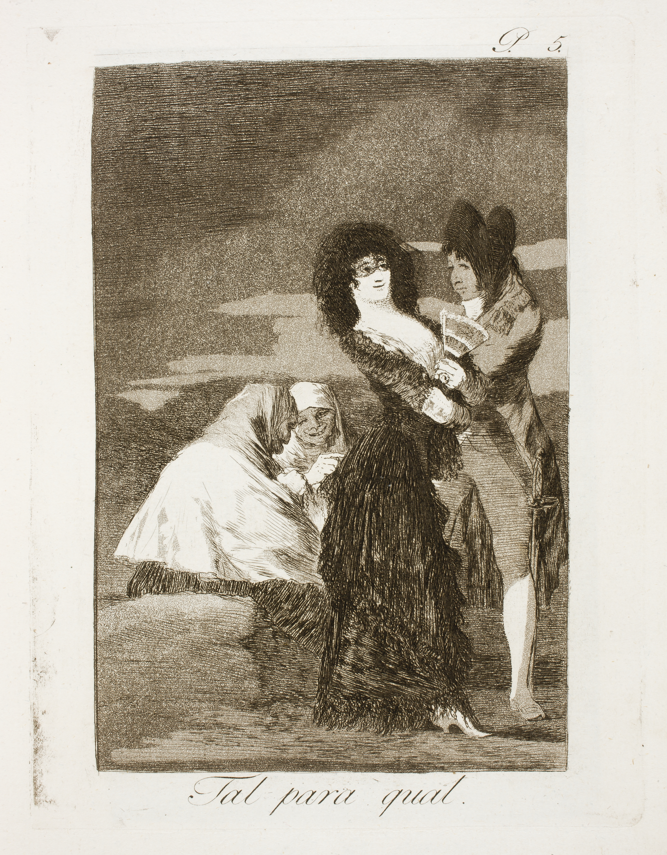 This print is work No. 5 of the "Caprichos" series (1st edition, Madrid, 1799).